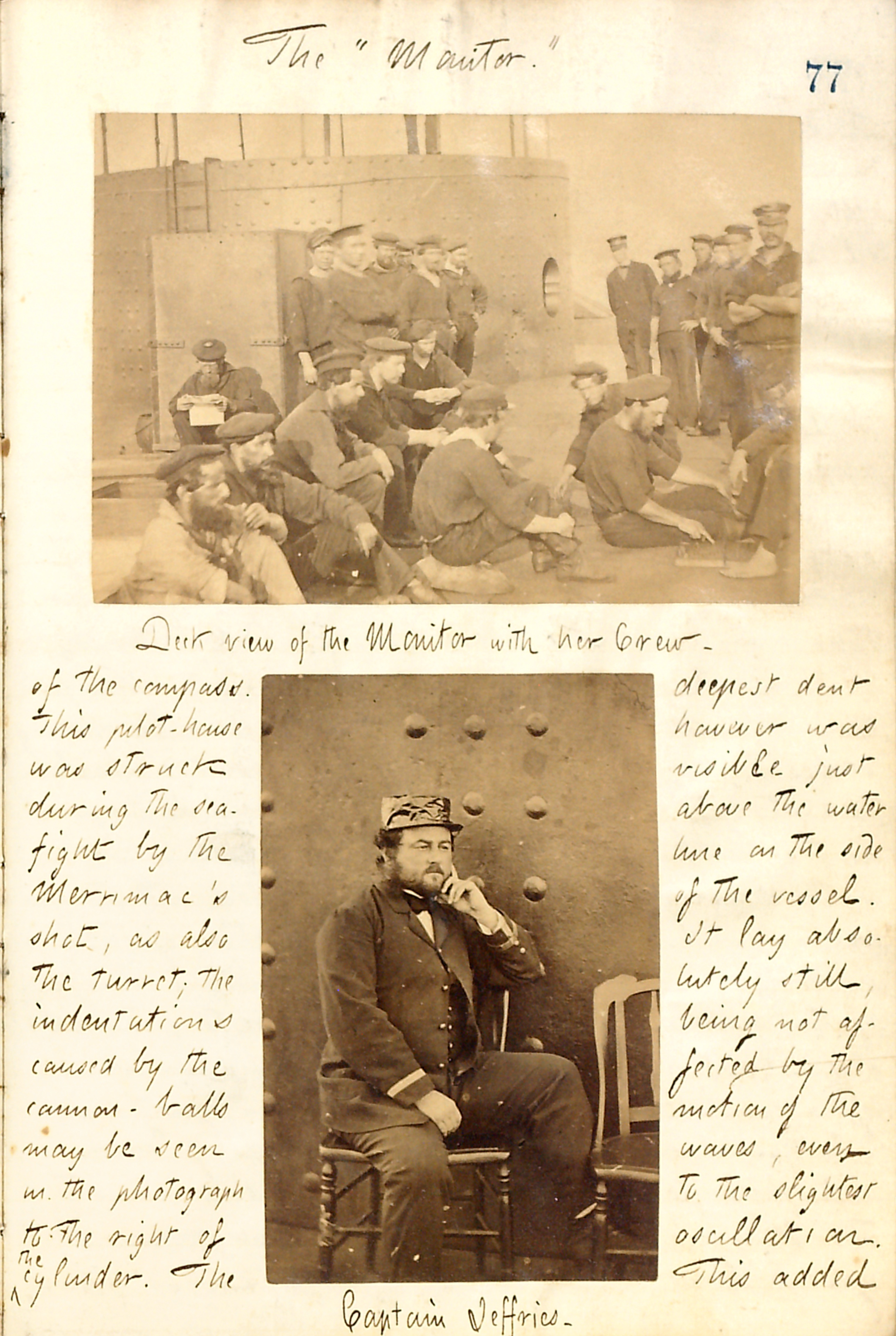 Describes a tour of the Monitor.Title: Thomas Butler Gunn Diaries: Volume 19, page 91, March 29, 1862